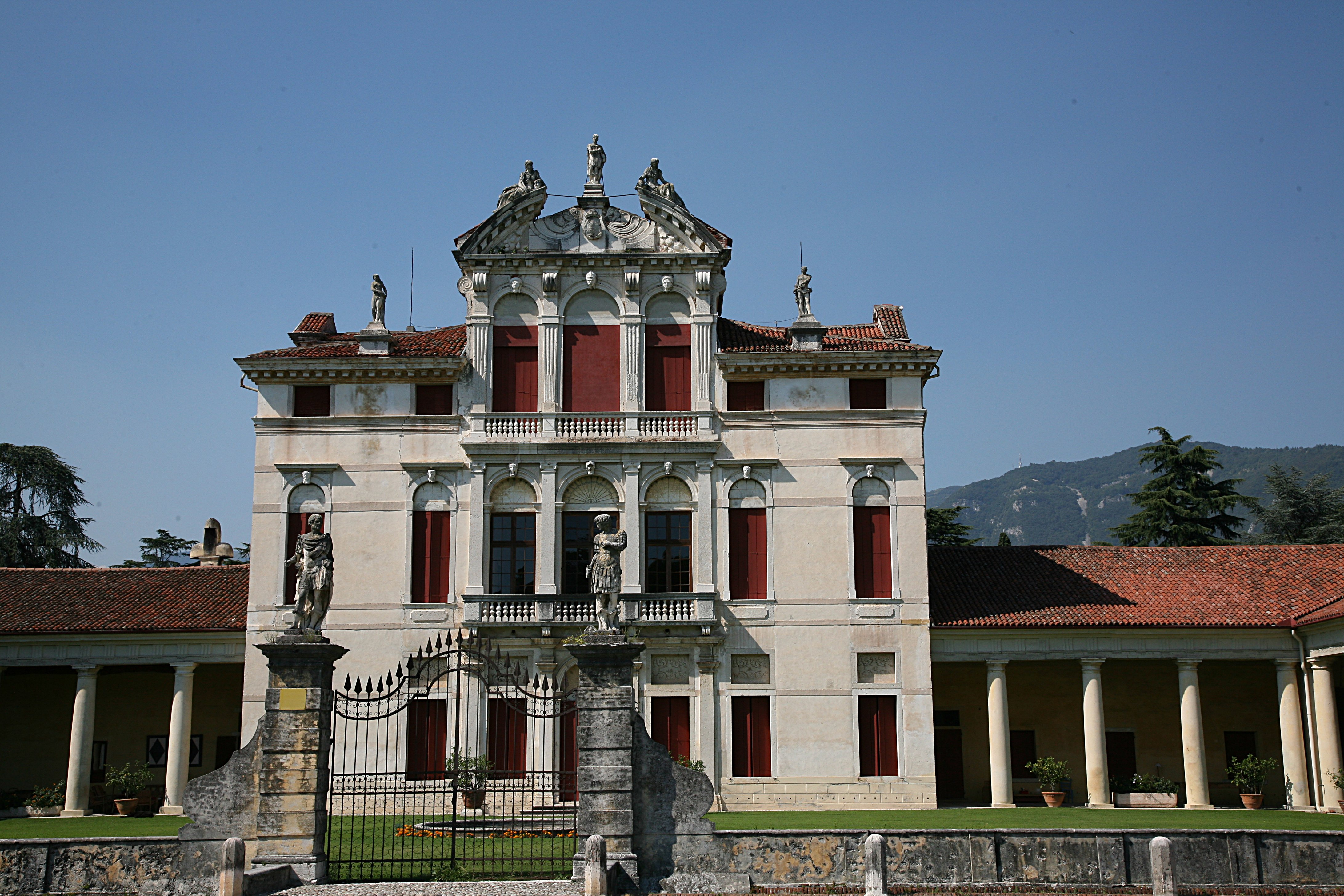 A Villa in Bassano del Grappa. Originally by Andrea Palladio. Brarchesse by him. Central house by Baldassarre Longhena.